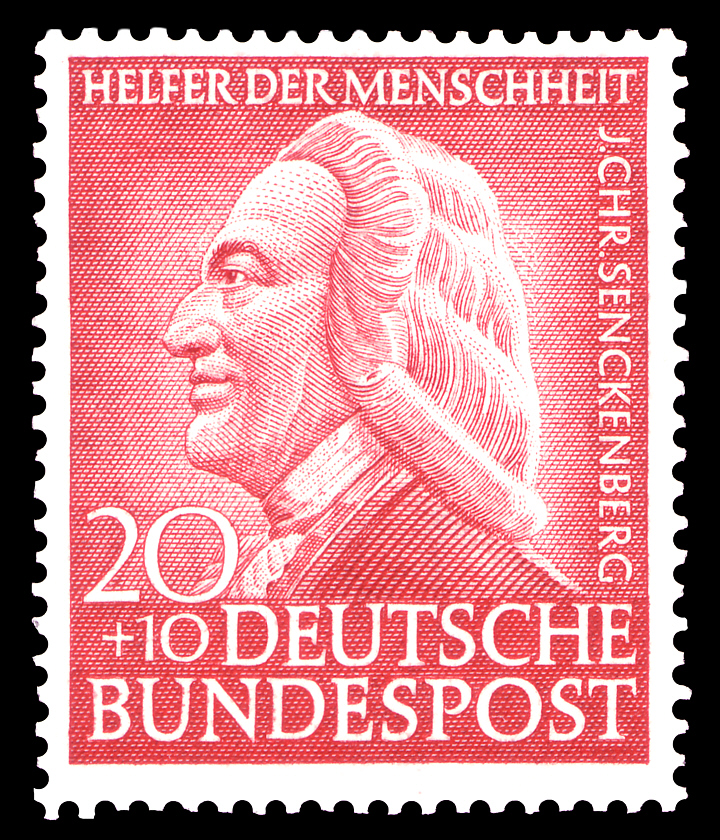 Social welfare stamp series 1953, Johann Christian Senckenberg (1707-1772) Graphics by Hermann Zapf Ausgabepreis: 20+10 Pfennig First Day of Issue / Erstausgabetag: 2. November 1953 Michel-Katalog-Nr: 175